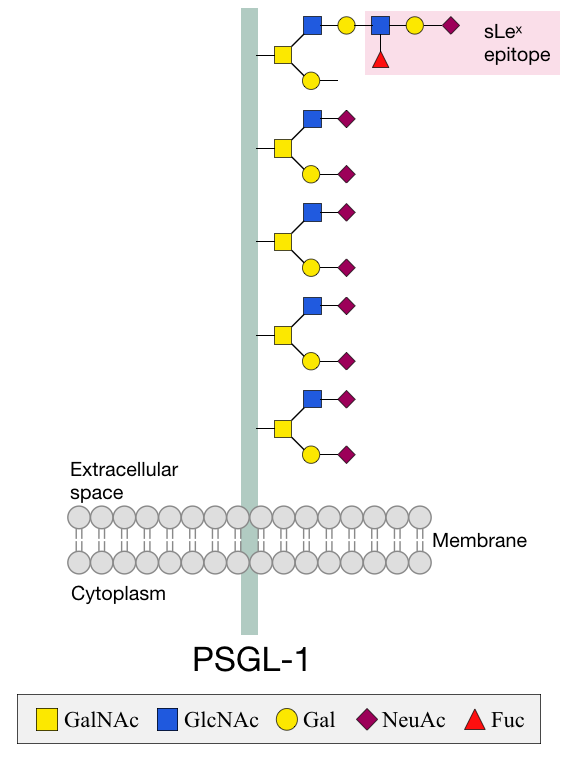 PSGL-1 is necessary for leukocyte trafficking through the body, and has many O-glycans that allow the structure for function.